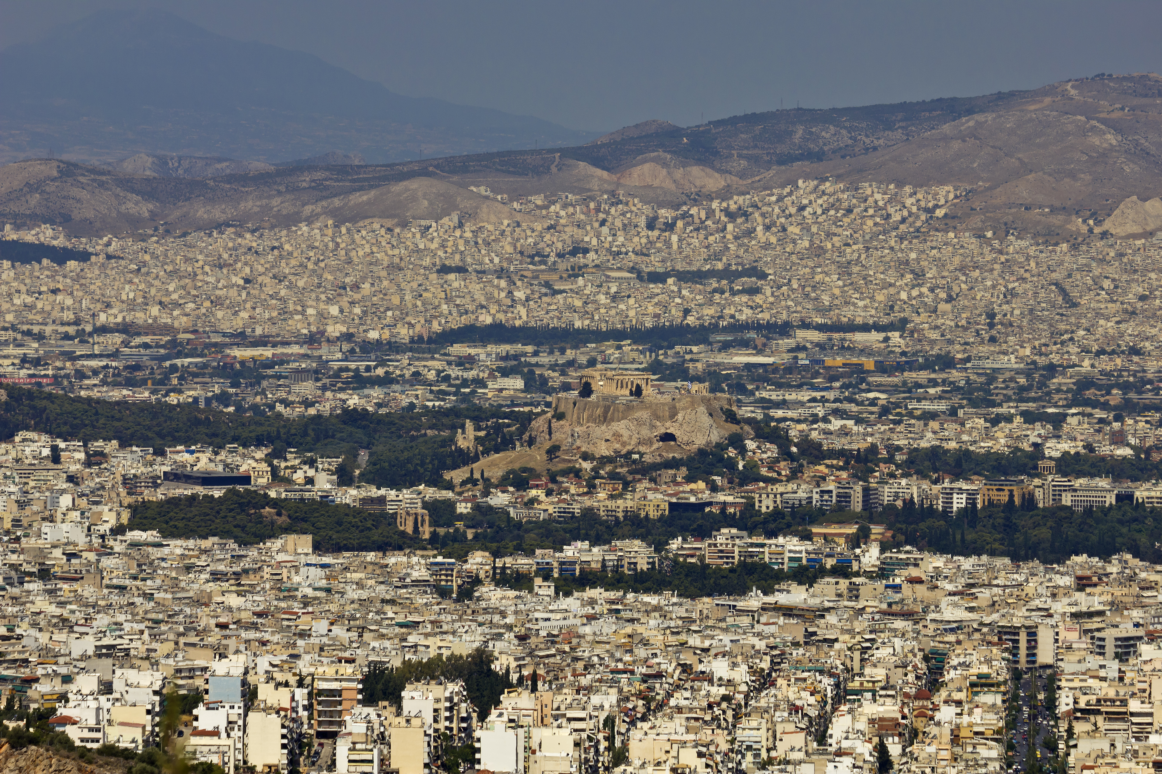 View from Kalogeros Hill to Athens (Attica, Greece)